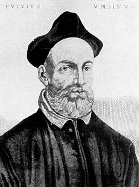 Fulvio Orsini, italian Antiquarian (1529–1600)